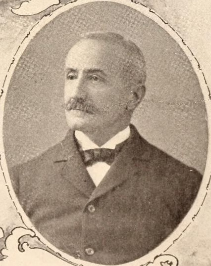 Portrait of New York state senator Louis F. Goodsell Other information none